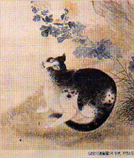 Painting of a cat by the Joseon Dynasty artist Owon. Retrieved from [1].